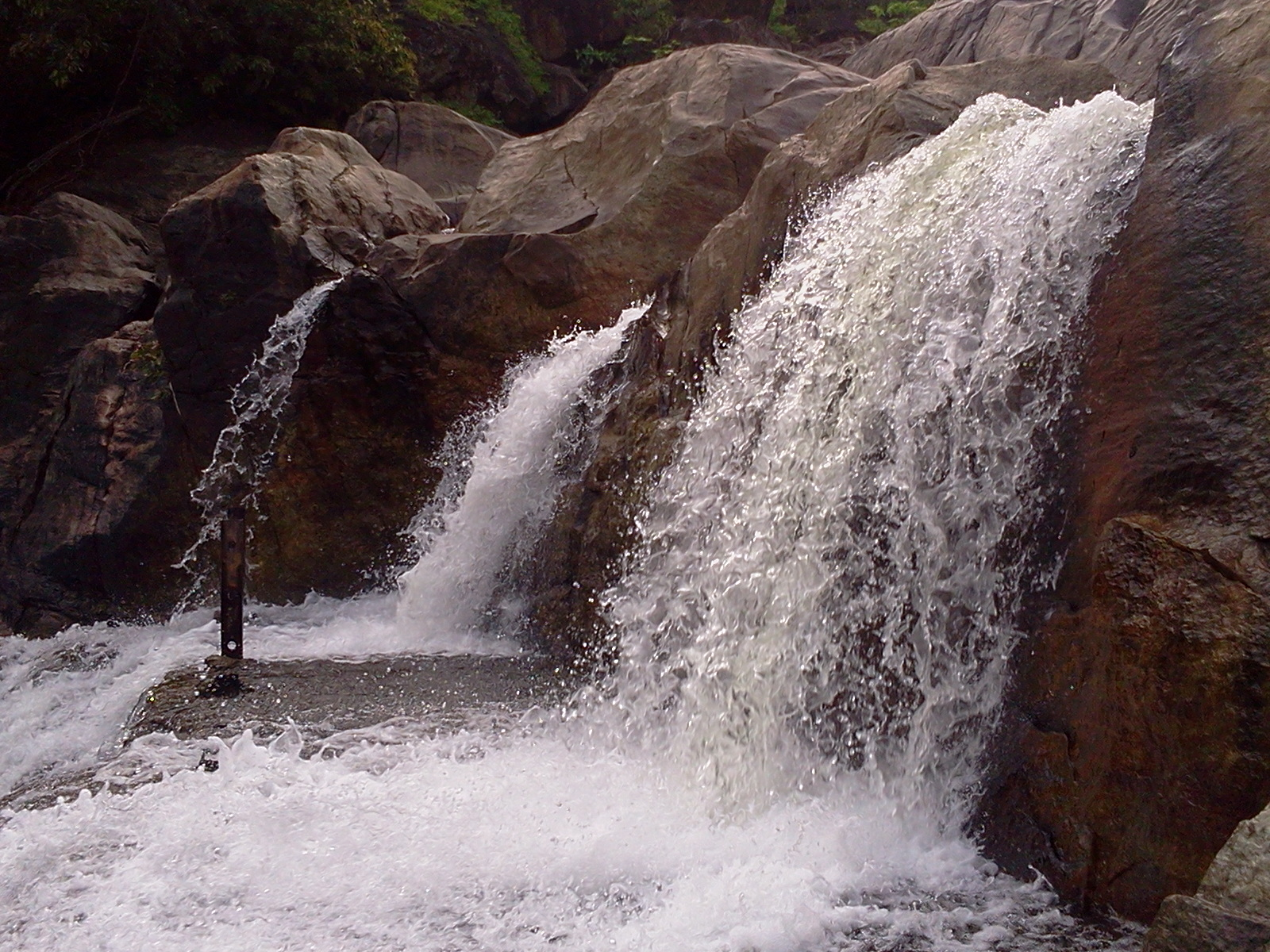 This is Manimuthar Falls @ Manimuthar, Tirunelveli District, Tamil Nadu, India